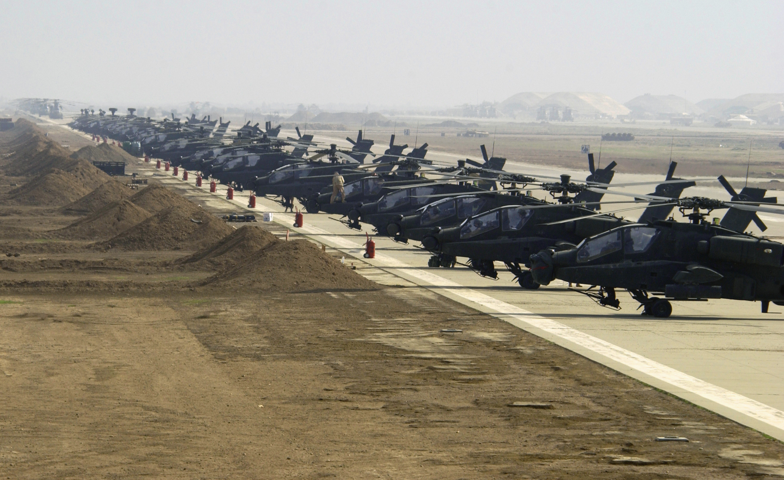 US Army (USA) AH-64D Apache Longbow helicopters line the ramp at an airfield in Iraq during Operation IRAQI FREEDOM.